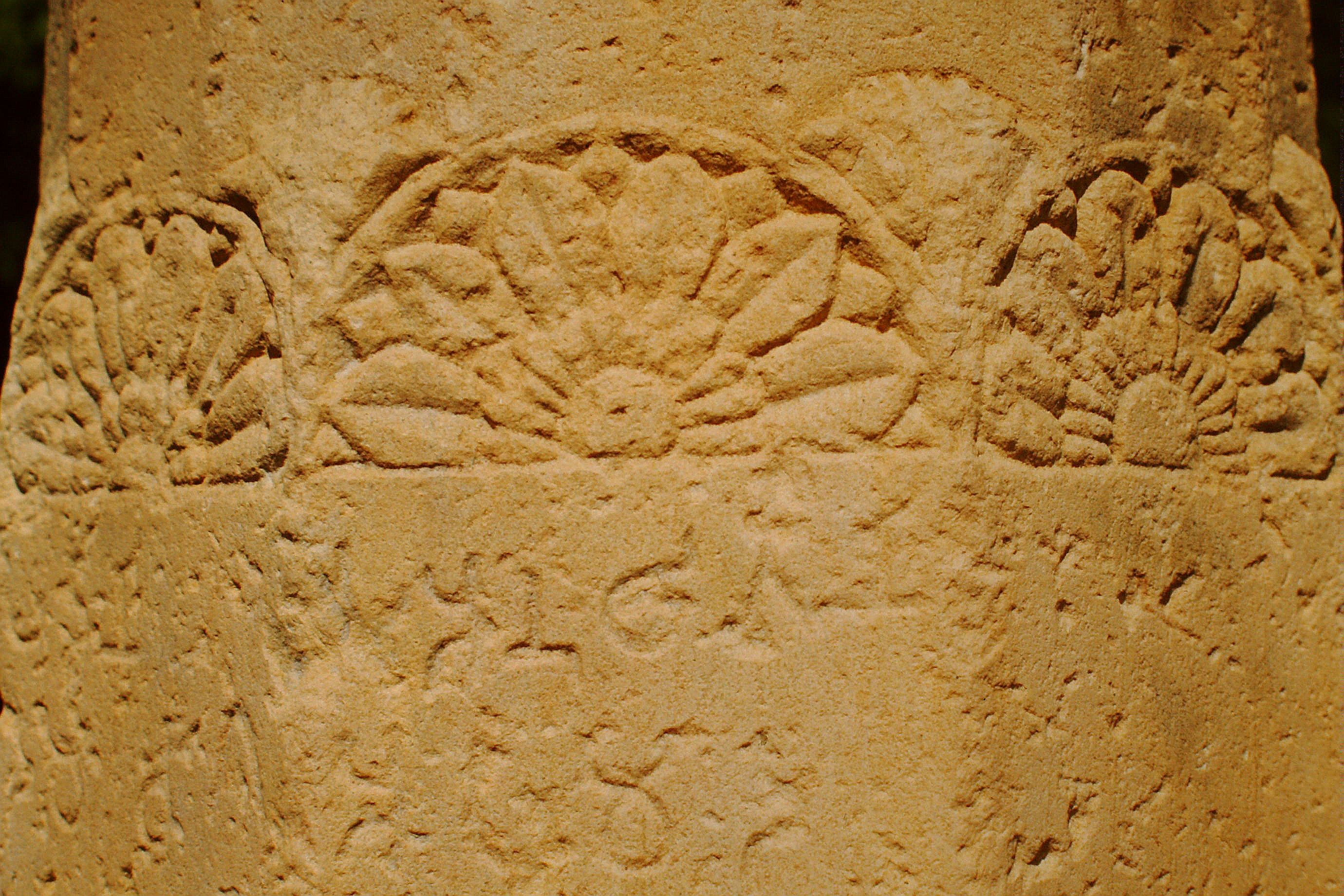 Heliodoros-Column